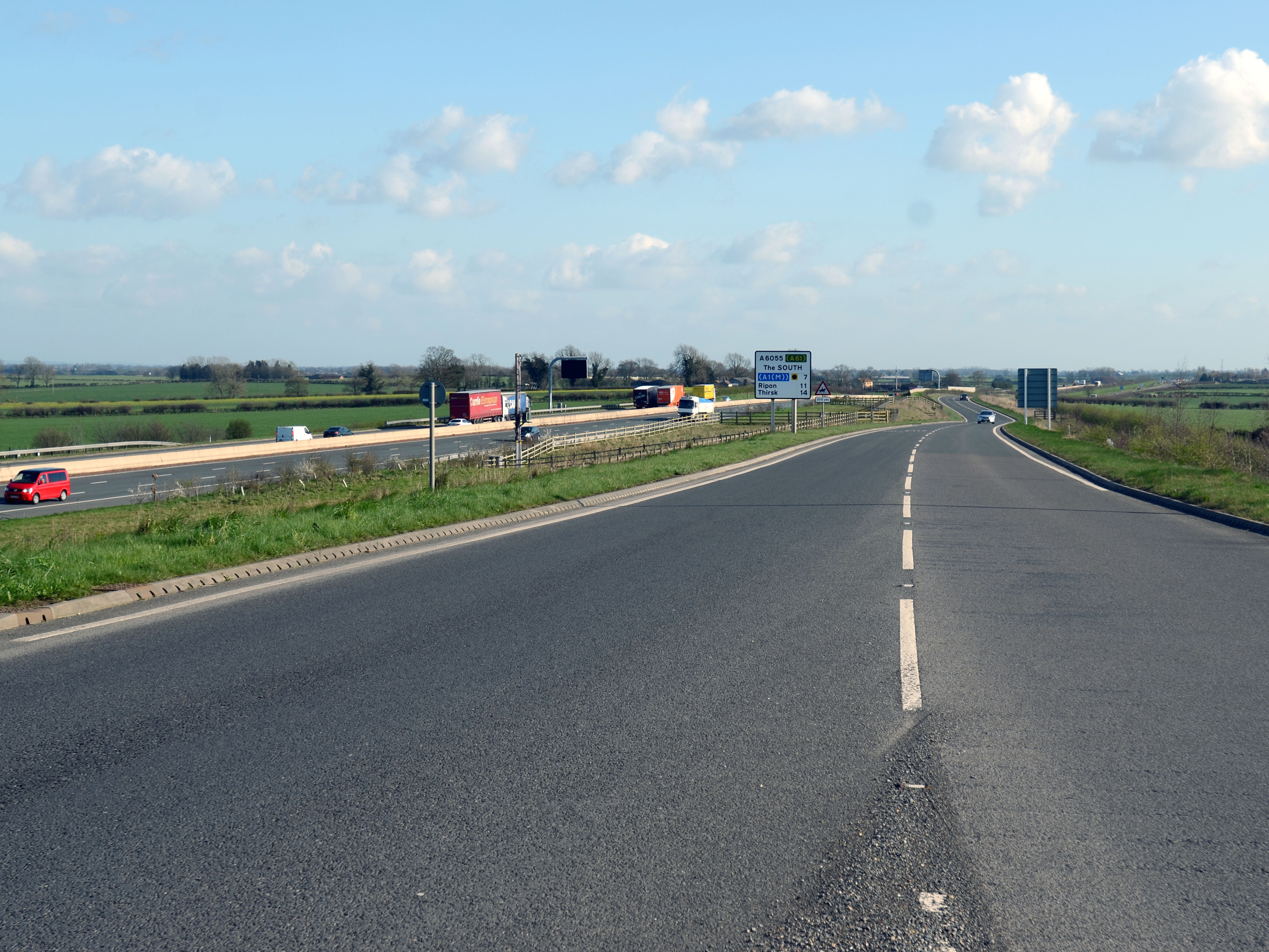 The local access route that is the A6055 alongside the A1(M) at the turnoff for RAF Leeming and Gatenby in North Yorkshire. This is looking south.